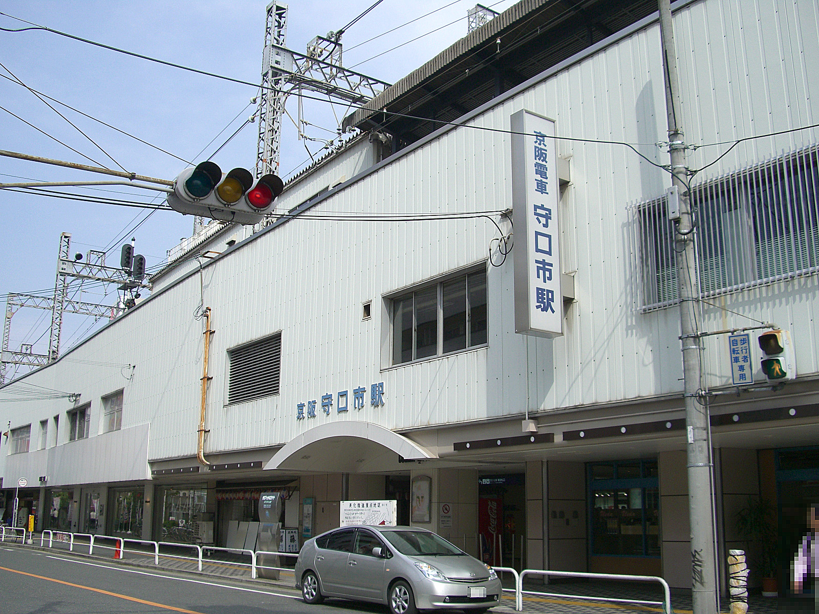 Keihan Electric Railway Keihan Main Line Moriguchishi Station Building West Gate